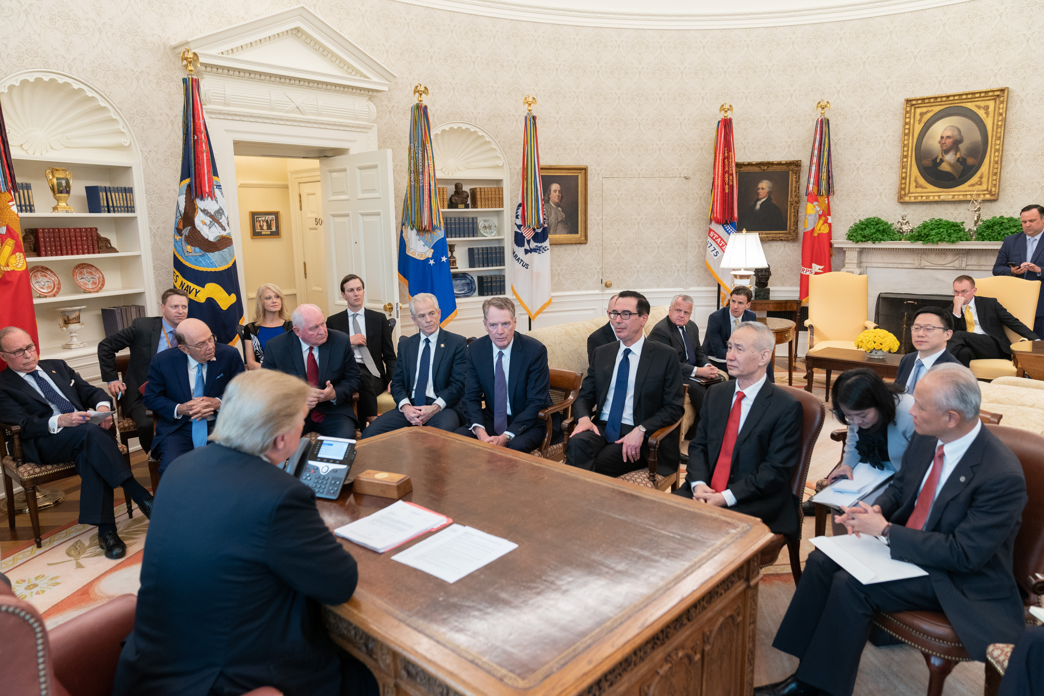 President Donald J. Trump is joined by United States Trade Representative Ambassador Robert Lighthizer, Secretary of the Treasury Steven Mnuchin, Cabinet members and White House senior advisers, as he meets with Chinese Vice Premier Liu He Thursday, April 4, 2019, in the Oval Office of the White House, following continued U.S.–China trade talks. (Official White House Photo by Shealah Craighead)